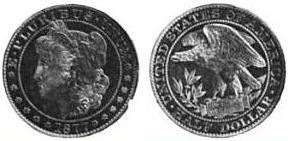 Photograph of a half dollar pattern coin created by George T. Morgan